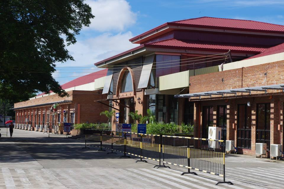 Exterior of Laoag International Airport Tagalog: Labas ng Paliparang Pandaigdig ng Laoag